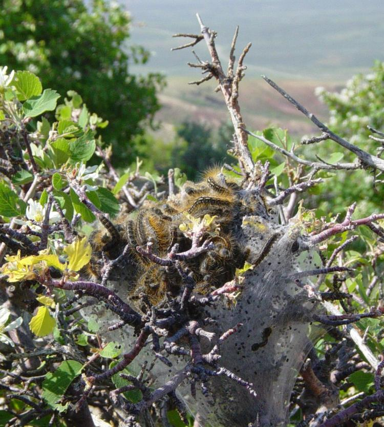 Forrest Tent Caterpillar in Fossil Butte National Monument